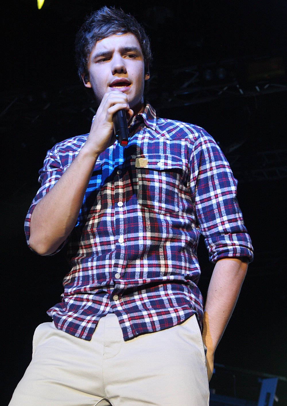 Liam Payne at the One Direction performs at Hordern Pavilion, Moore Park, Sydney, Australia 2012.